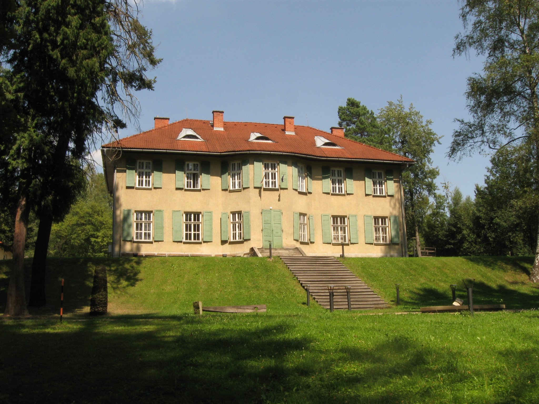 Manor-House OščadnicaSlovenčina: kaštieľ Oščadnica